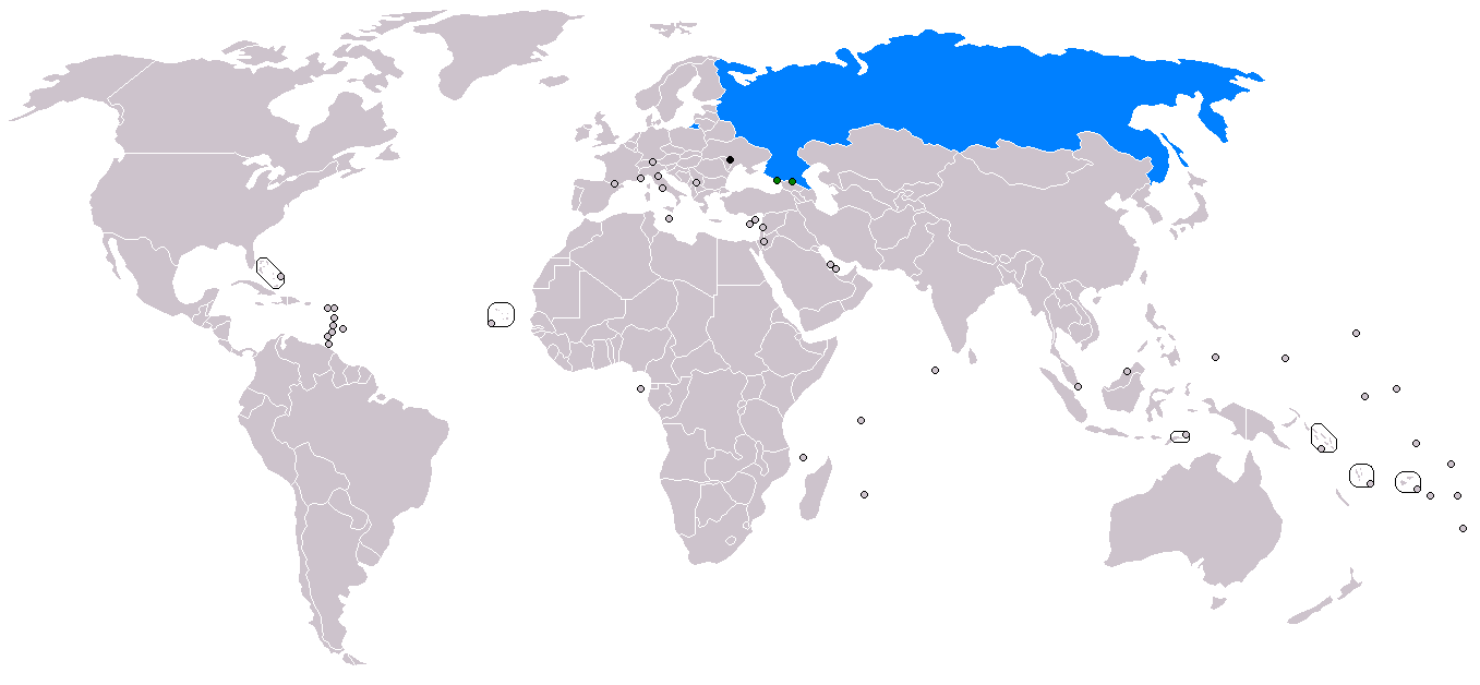 dark green - diplomatic relations; light green - diplomatic recognition; blue - non-ambassador level representation in Transnistria